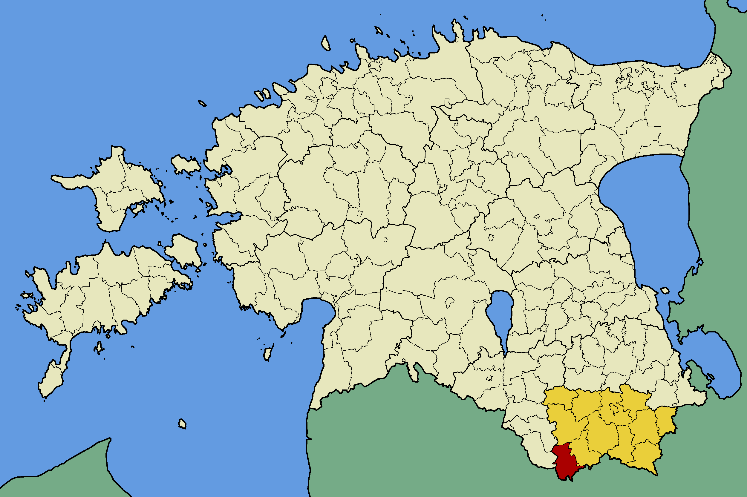 Map of Estonia with borders of municipalities (parishes). Võru county and Mõniste municipality emphasized.